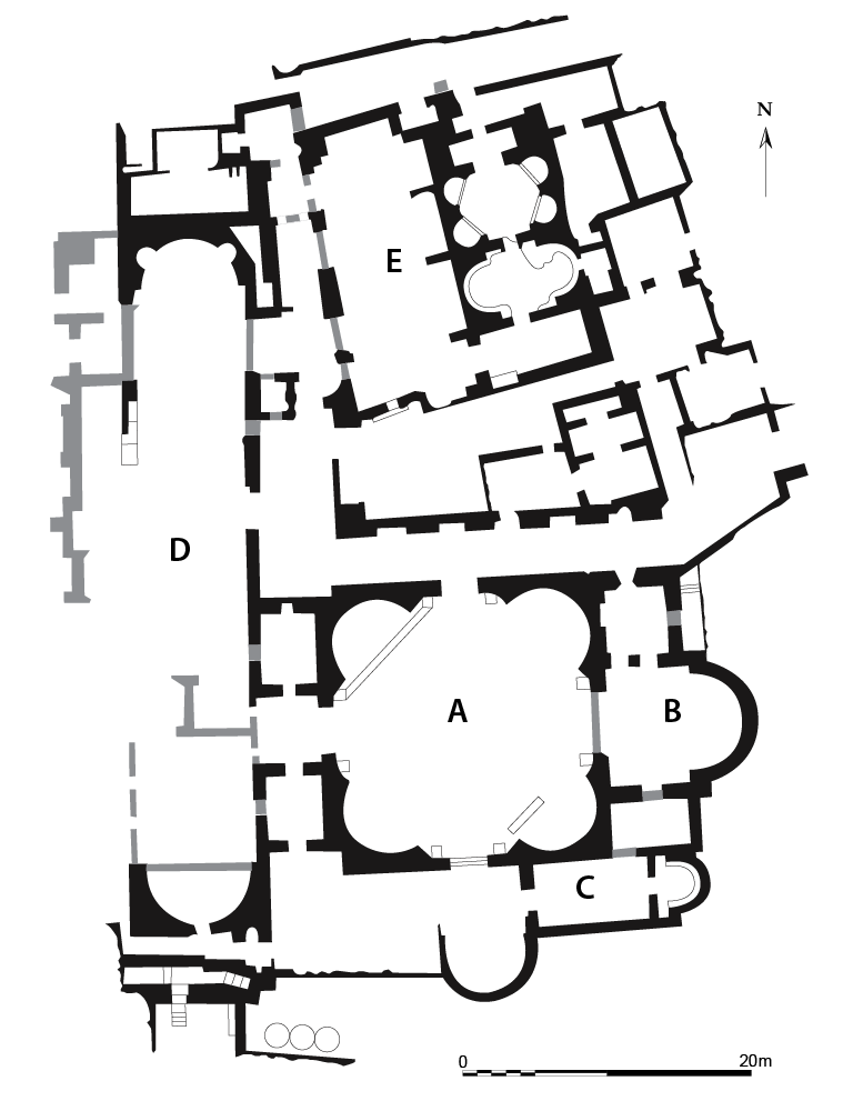 Plan of the so-called Proconsul palace in Ephesos. Source : C. Foss, Ephesus after Antiquity, Cambridge, 1979.